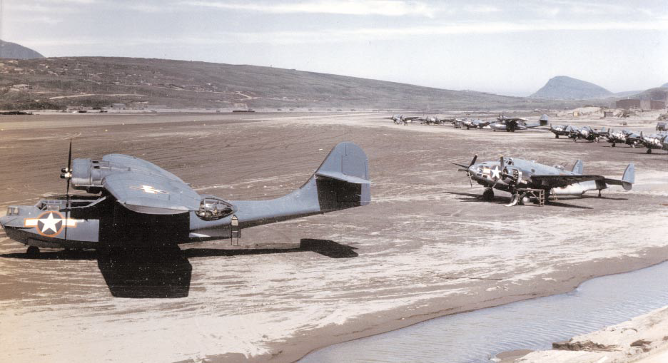 VPB parked